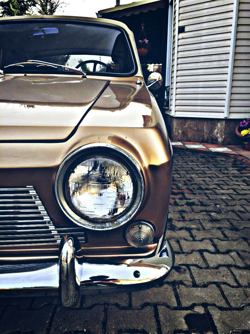 Anadol A1 Sağ Ön Taraf